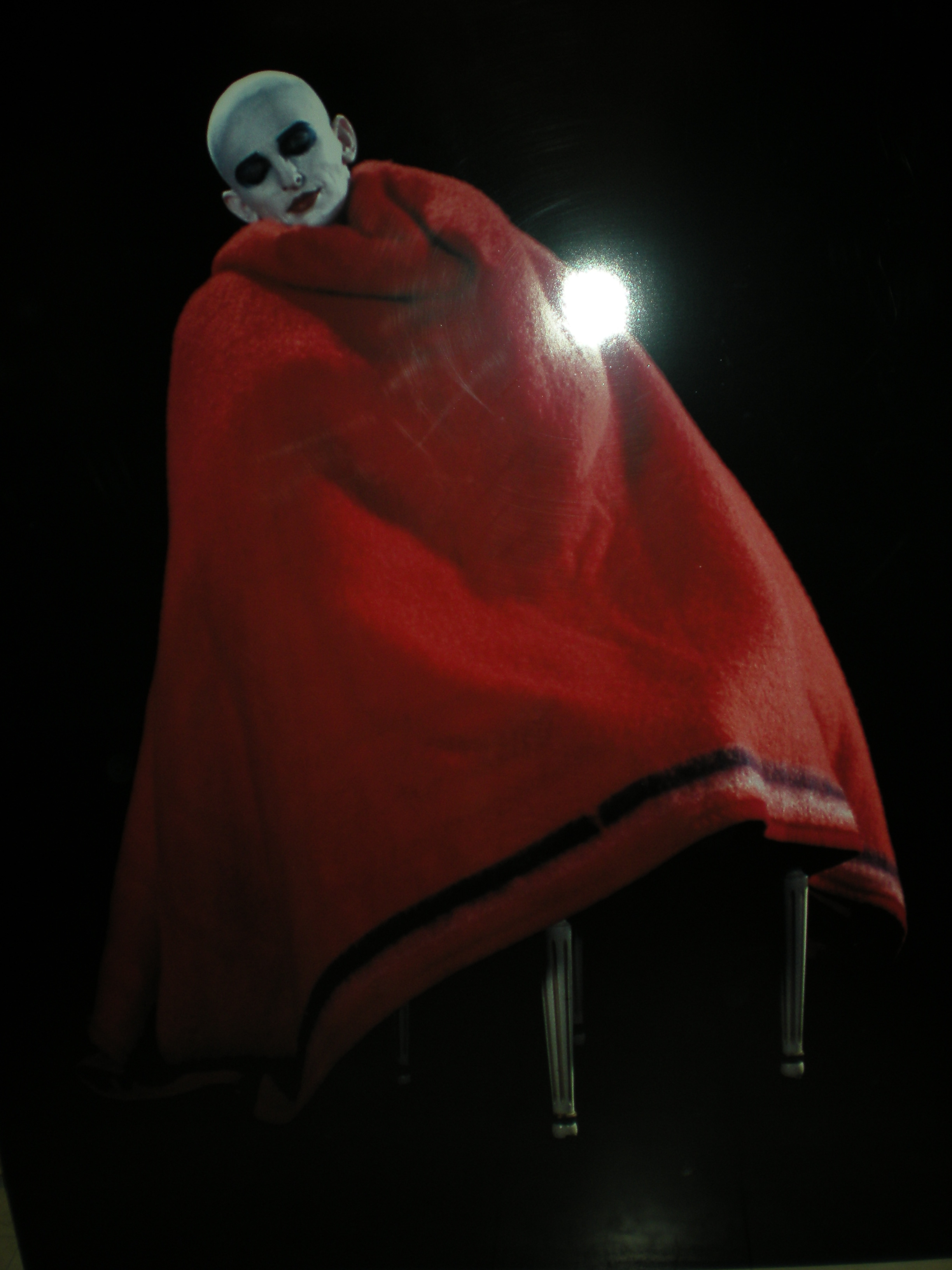 Model from the film Harpya.